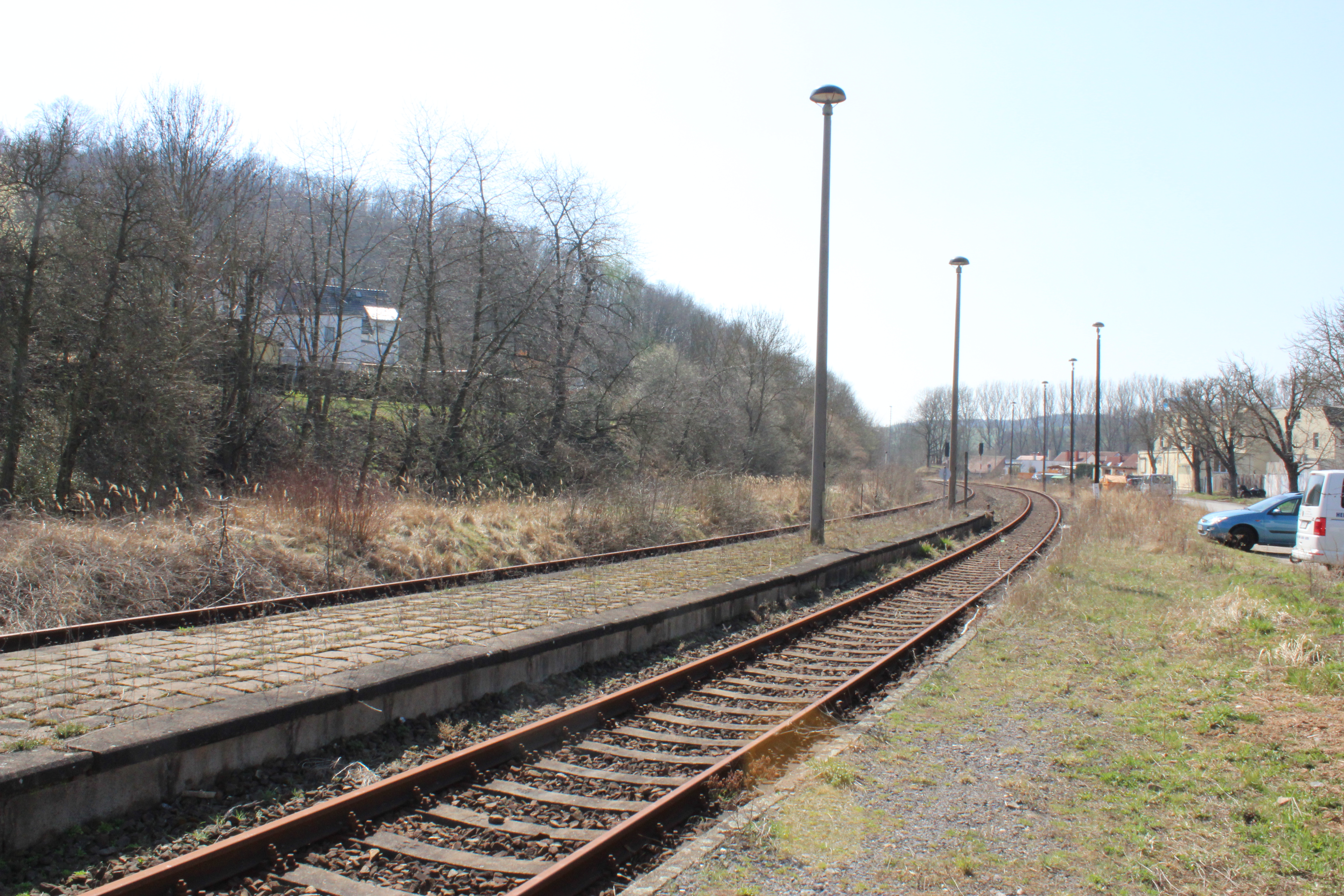 train station Gera-Liebschwitz